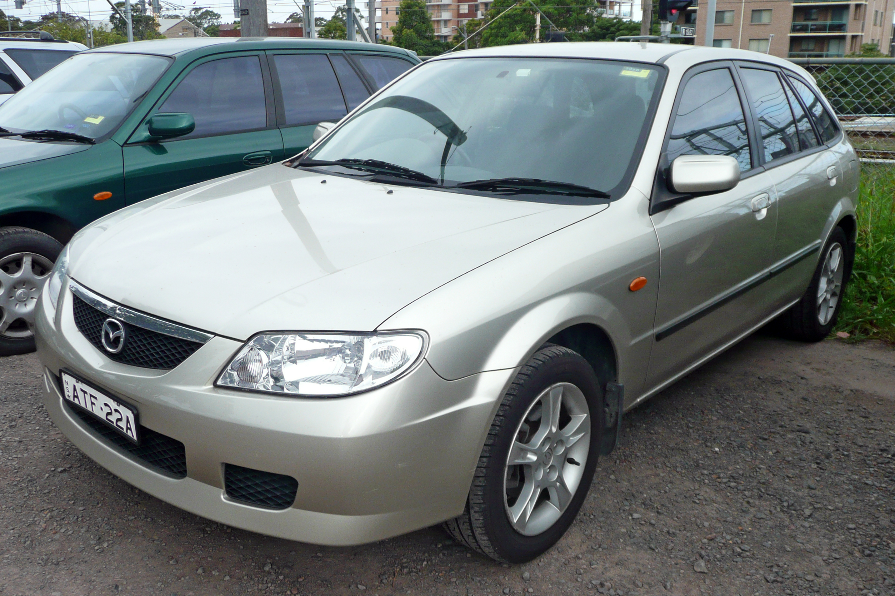 2003 Mazda 323 (BJ II) Astina Shades 5-door hatchback. Photographed in Sutherland, New South Wales, Australia.